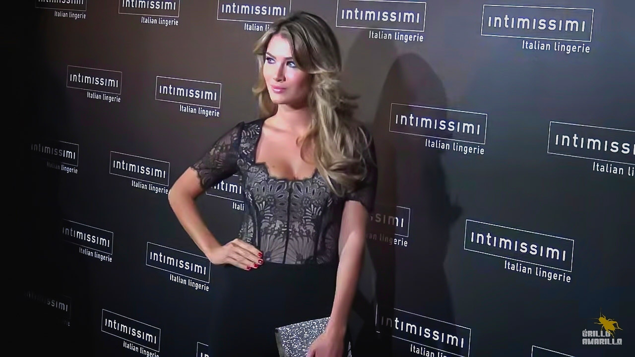 Mireia Lalaguna at the 20th anniversary of Intimissimi.